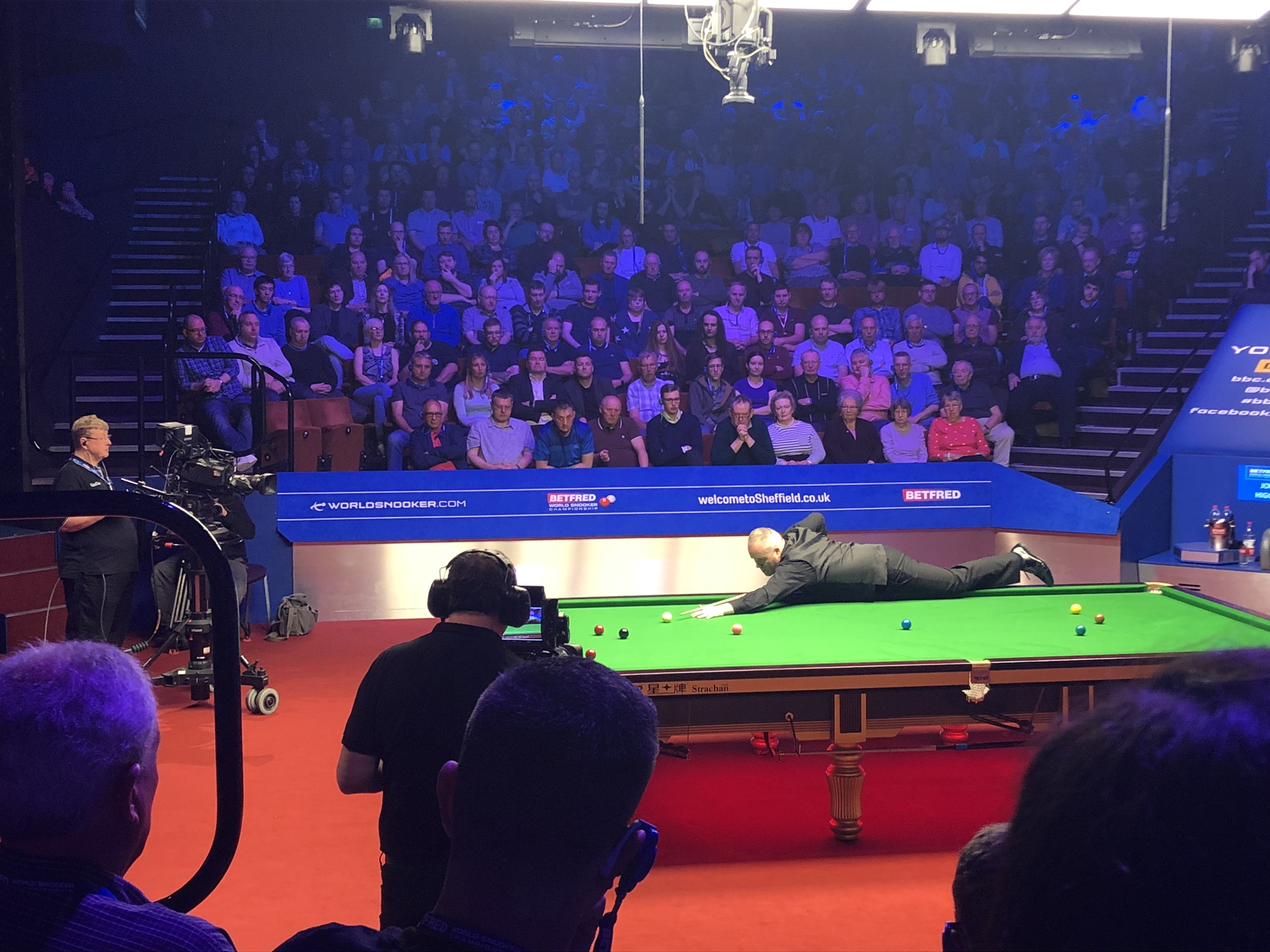 John Higgins defeated David Gilbert in the 2019 World Snooker Championship semi-finals